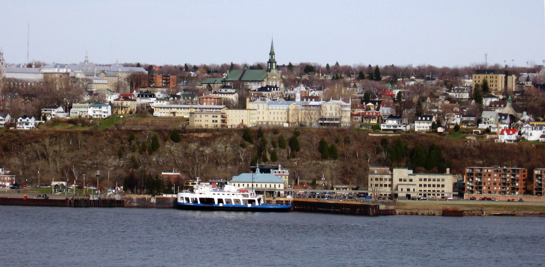 View of Lévis from Québec City